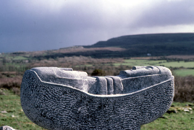 Tau Cross, Roughan. A modern version of the original which is in Corofin. Perhaps a boundary marker in prehistoric times.In background, Clifden Hill.